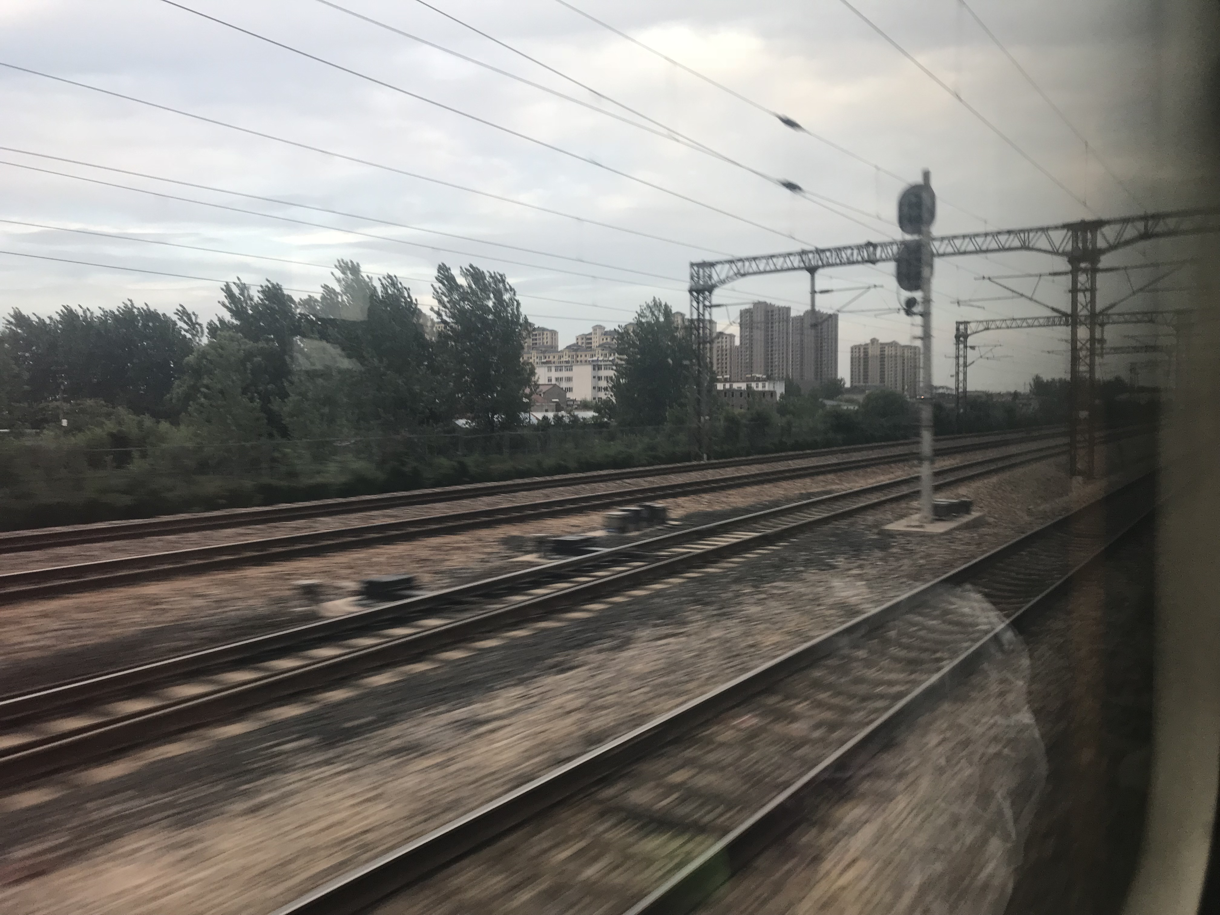 201806 Tracks at Caolaoji Station